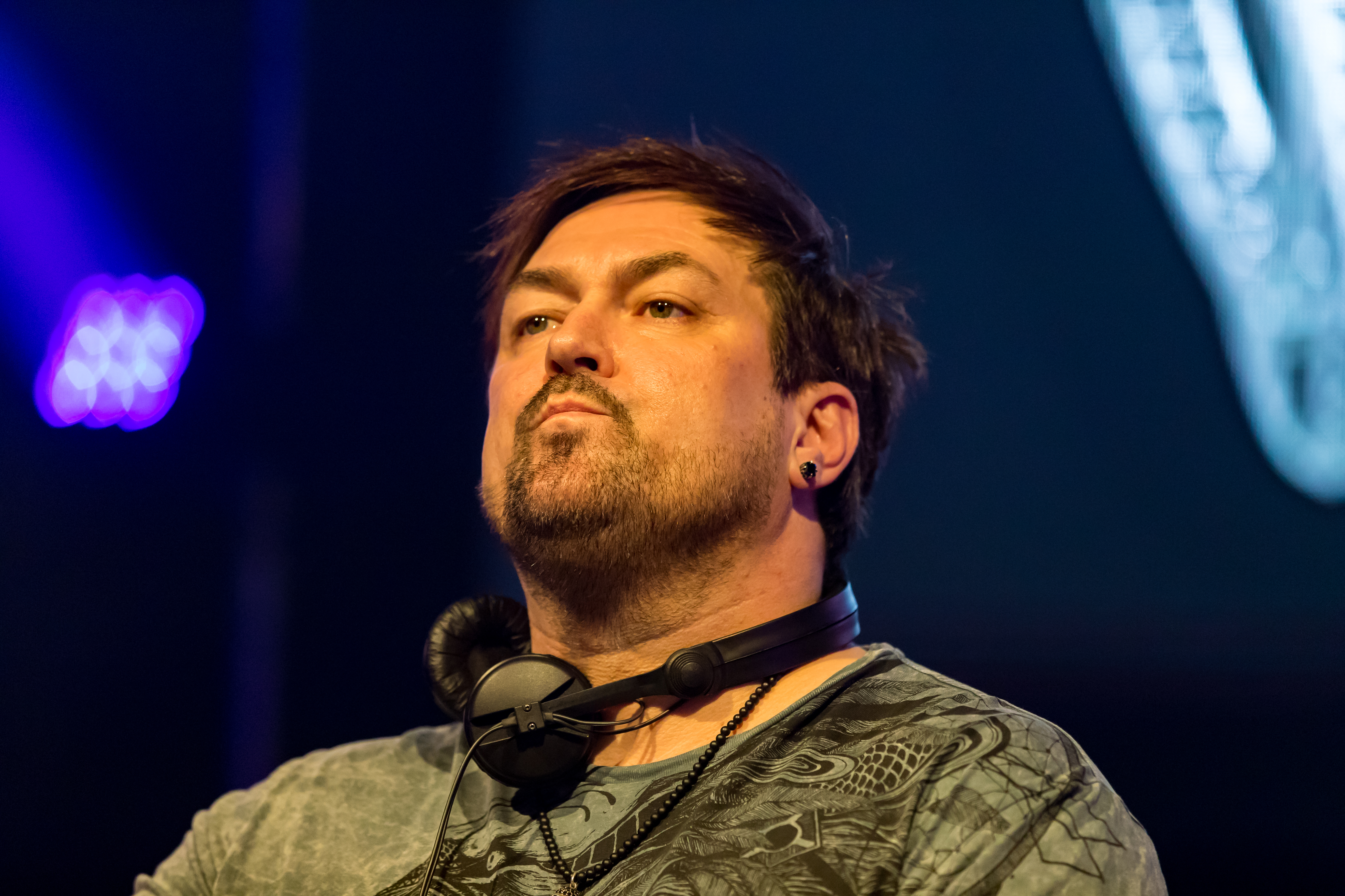 Mark 'Oh during Sunshine Live Retroactive - The 90s Rave at Maimarktclub, Mannheim, Baden-Württemberg, Germany on 2017-04-08, Photo: Sven Mandel